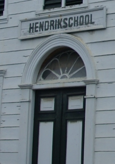 Hendrikschool, Henck Arronstraat 34, Paramaribo, Surinam. Detail of middle entrance.